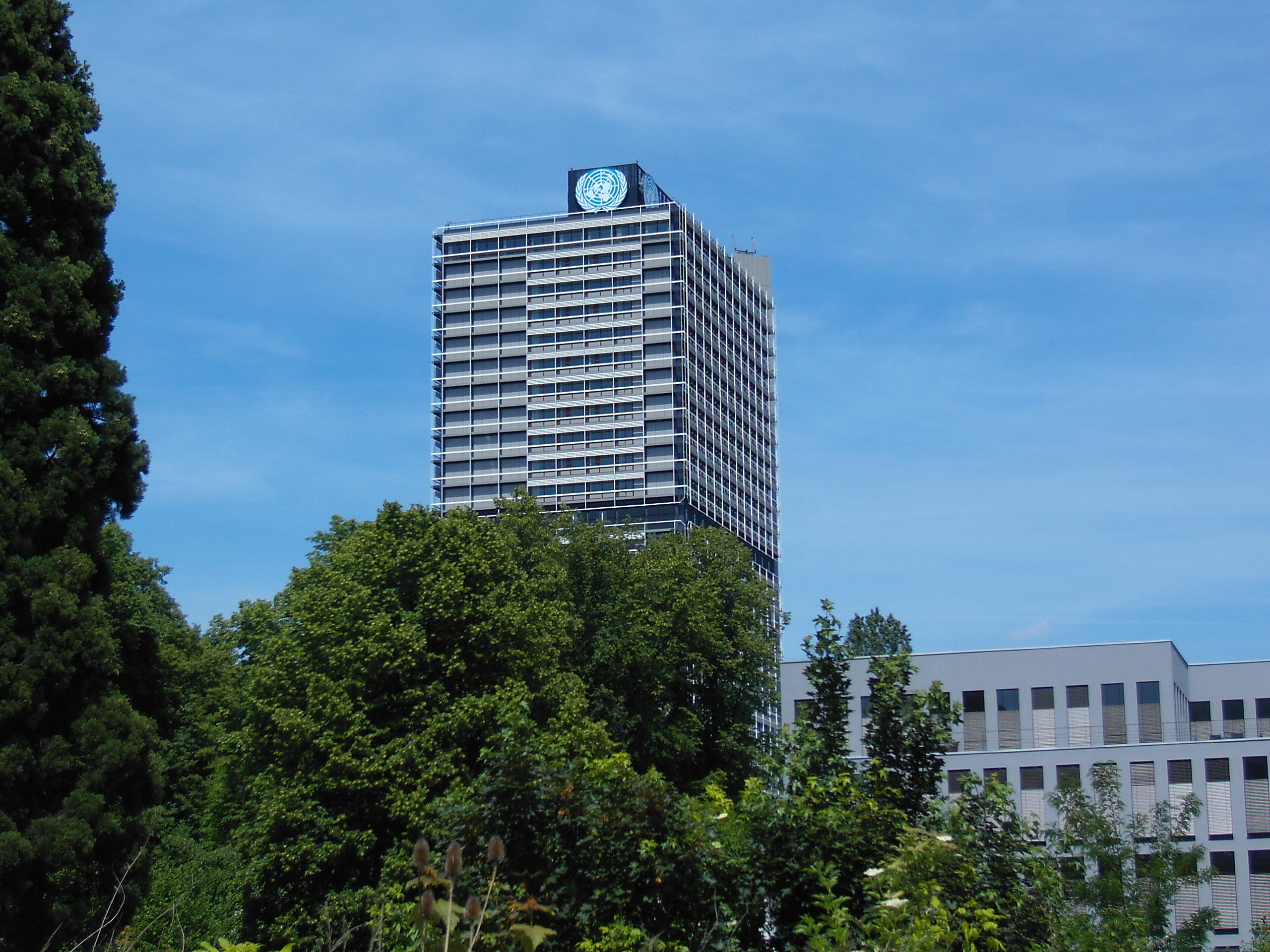 Langer Eugen seem from the Tulpenfeld office complex.